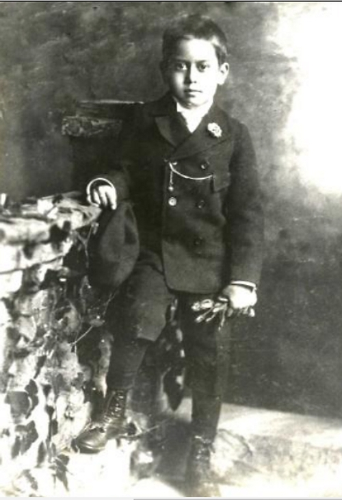 Robert Kalanikupuaikalaninui Keoua Wilcox (1893-1934)